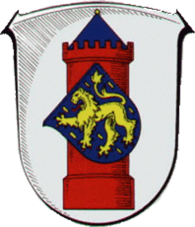 Coat of Arms of Hünfelden